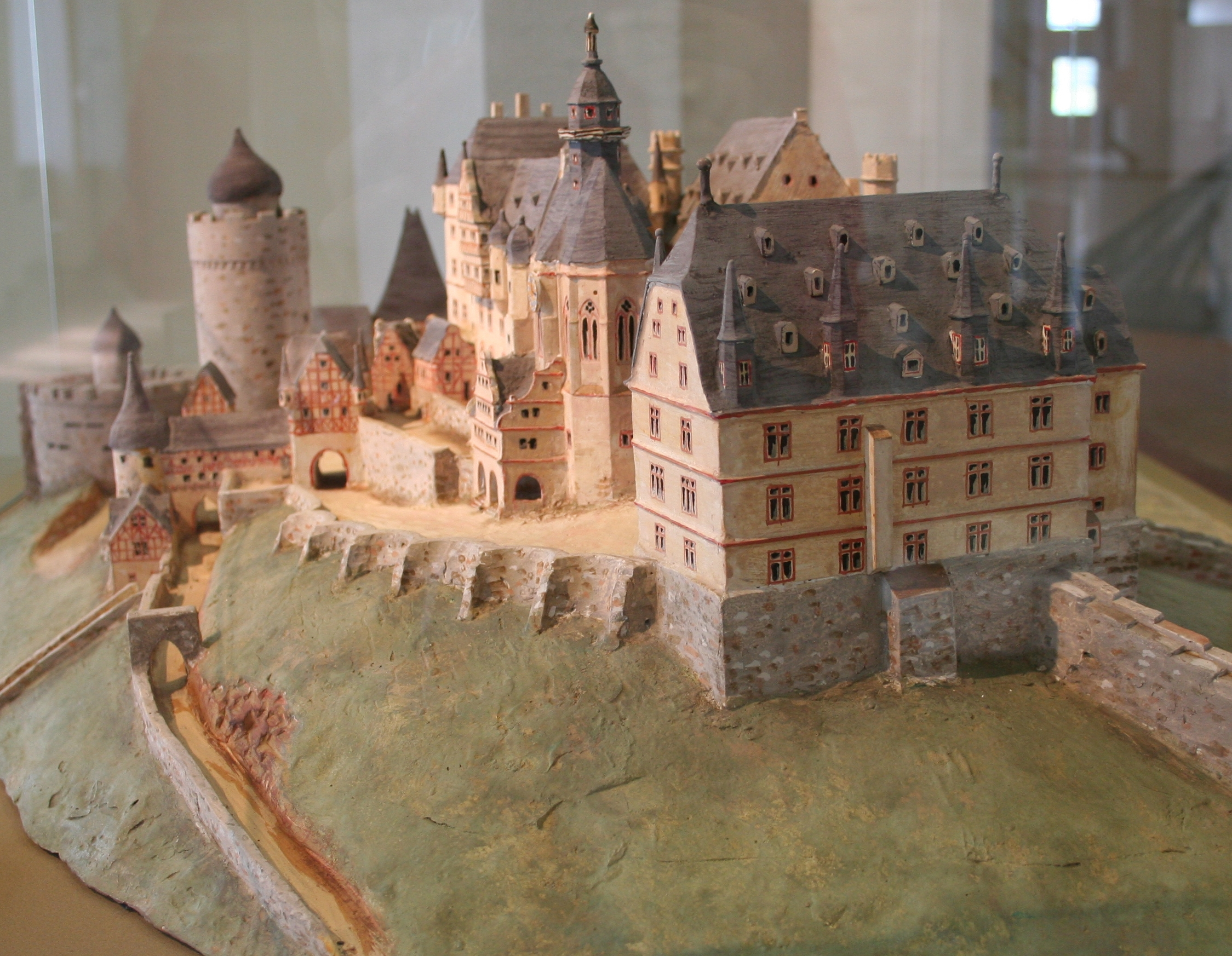 Model of the medieval castle of Marburg